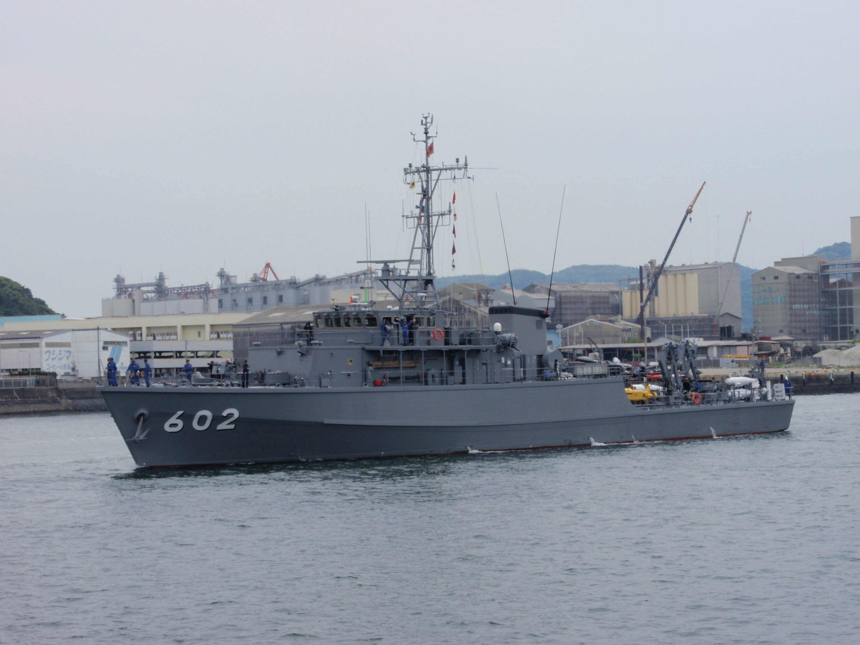 JS Yakushima (MSC-602) about to berth at Kurashima-Warf, Sasebo.